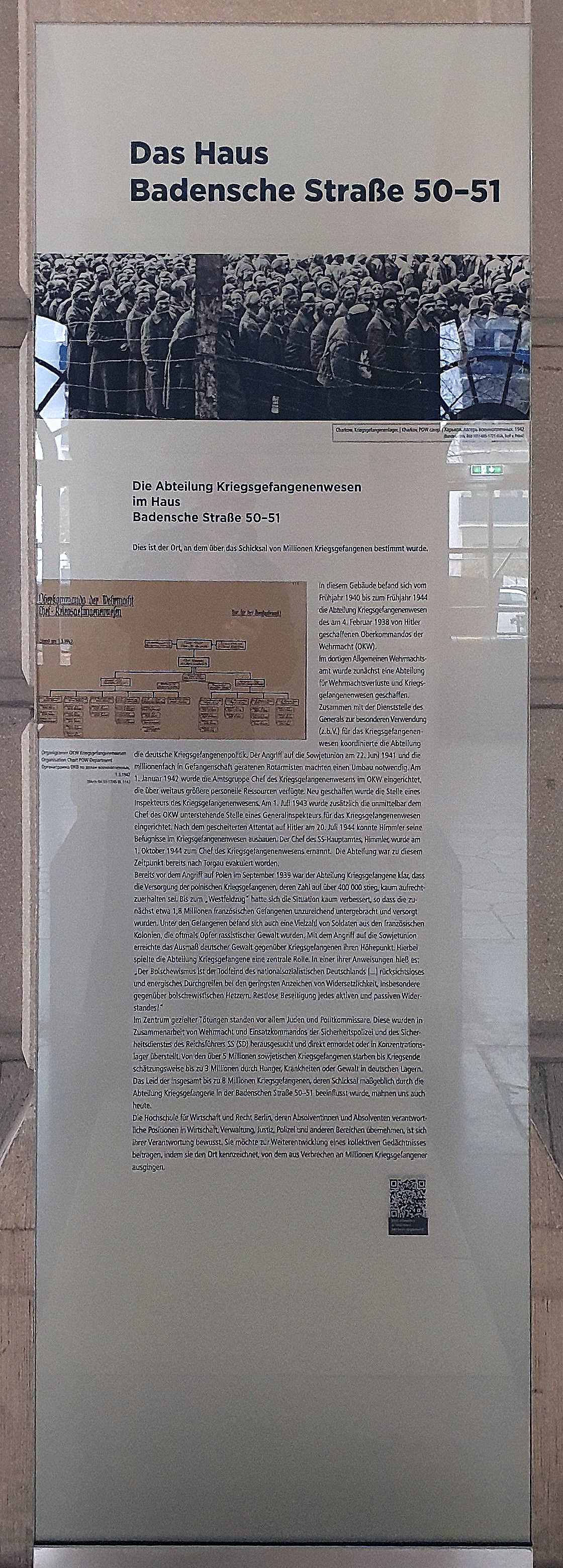 Memorial plaque, Badensche Straße 50-51, Berlin-Schöneberg, Deutschland